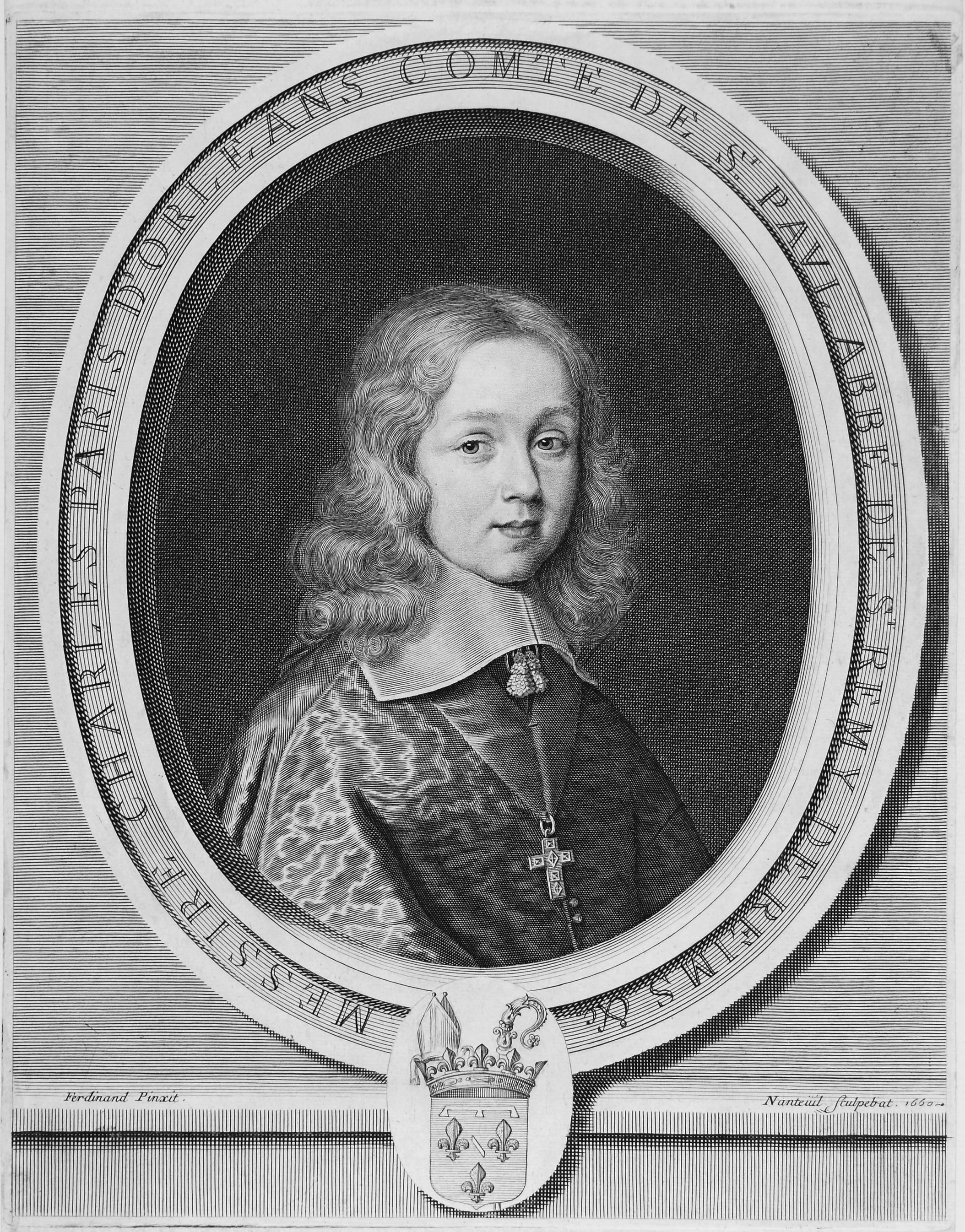 Engraved portrait of Charles Paris d'Orléans